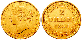 Canada, Newfoundland. Victoria, Queen of Great Britain. 1837-1901. AV 2 Dollars (3.30 gm). Dated 1865. Laureate head left Denomination. Friedberg 1; KM 5. VF. From the Charles E. Weber Collection.